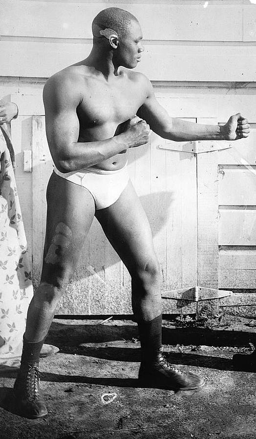 Sam Langford (March 4, 1883 - January 12, 1956) was an African Canadian boxing standout of the early part of the 20th century.